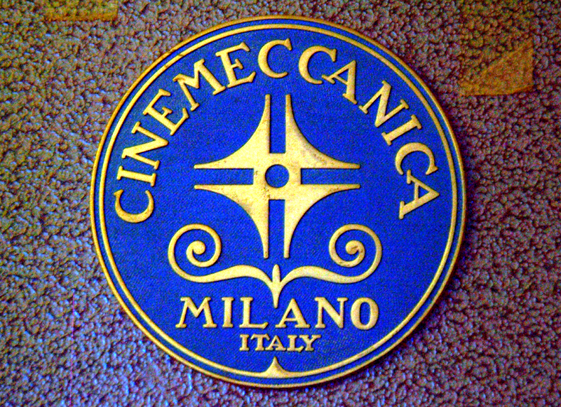 Logo plate of a Cinemecanica movie projector exposed in the city cinema of the Künstlerhaus, Hanover.